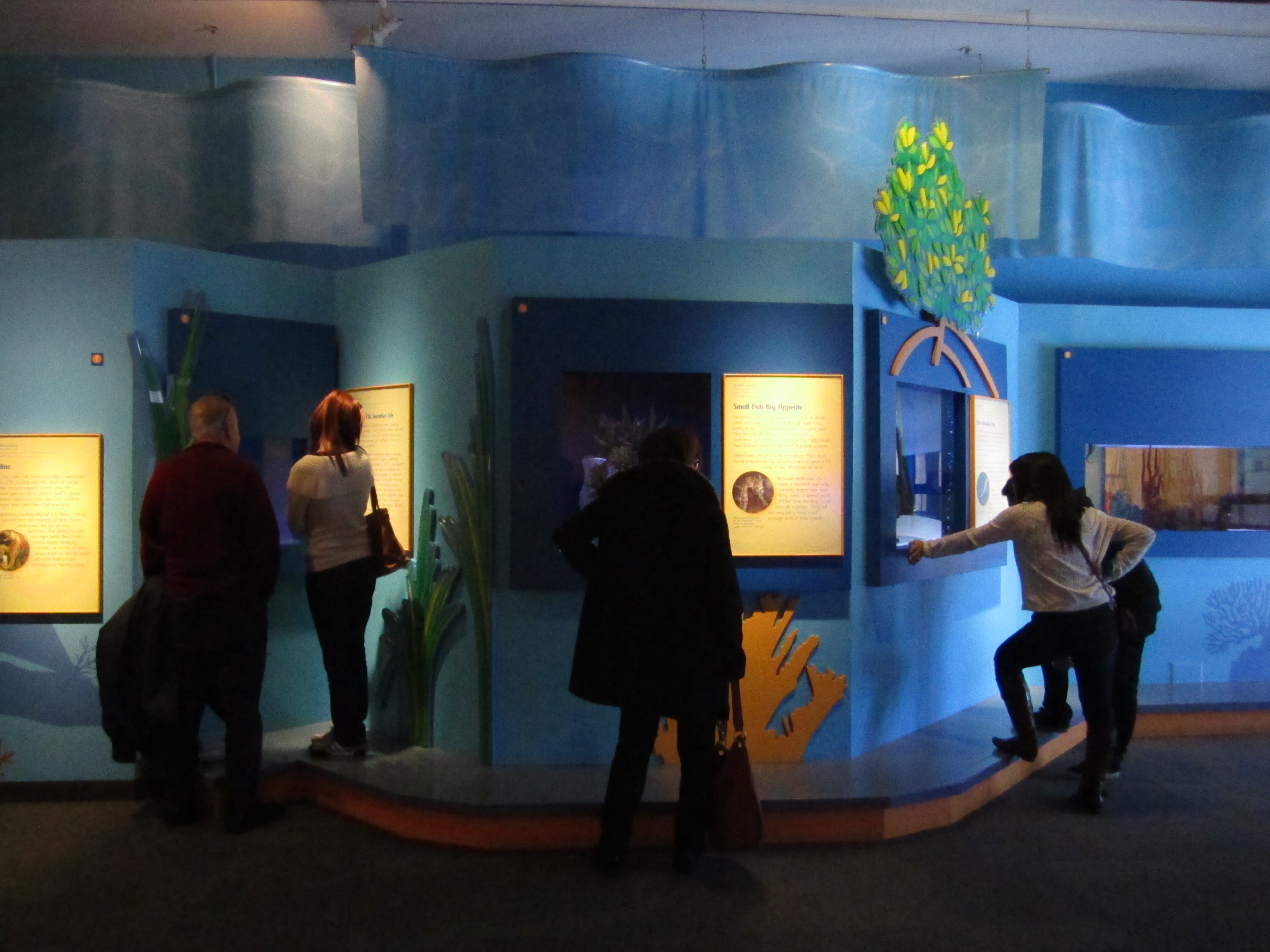 Visitors view various species of seahorses in the There's Something About Seahorses exhibit